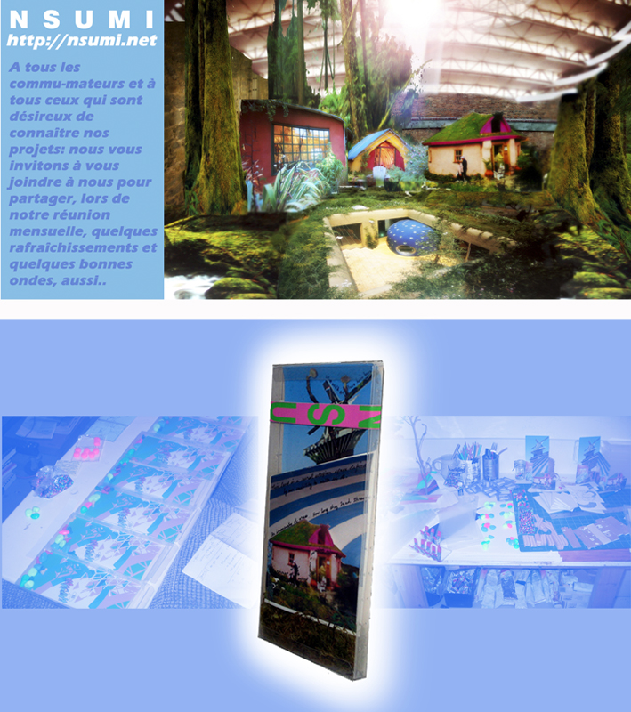 A promotional image for a performance-project at a Deitch Projects gallery group show, La Superette, 2003.